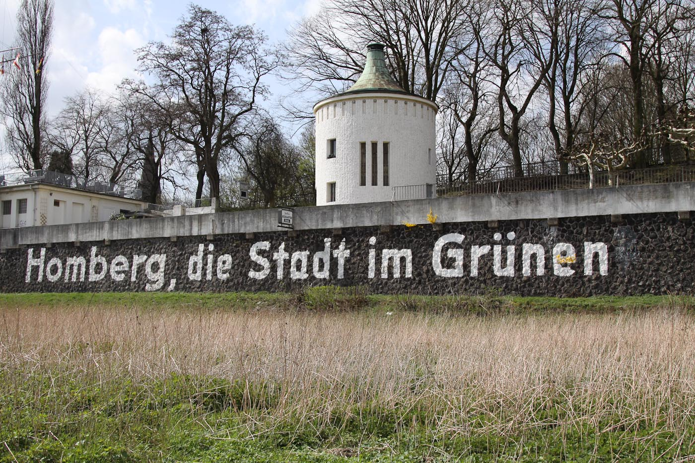 Ufermauer am Rhein bei Duisburg-Homberg